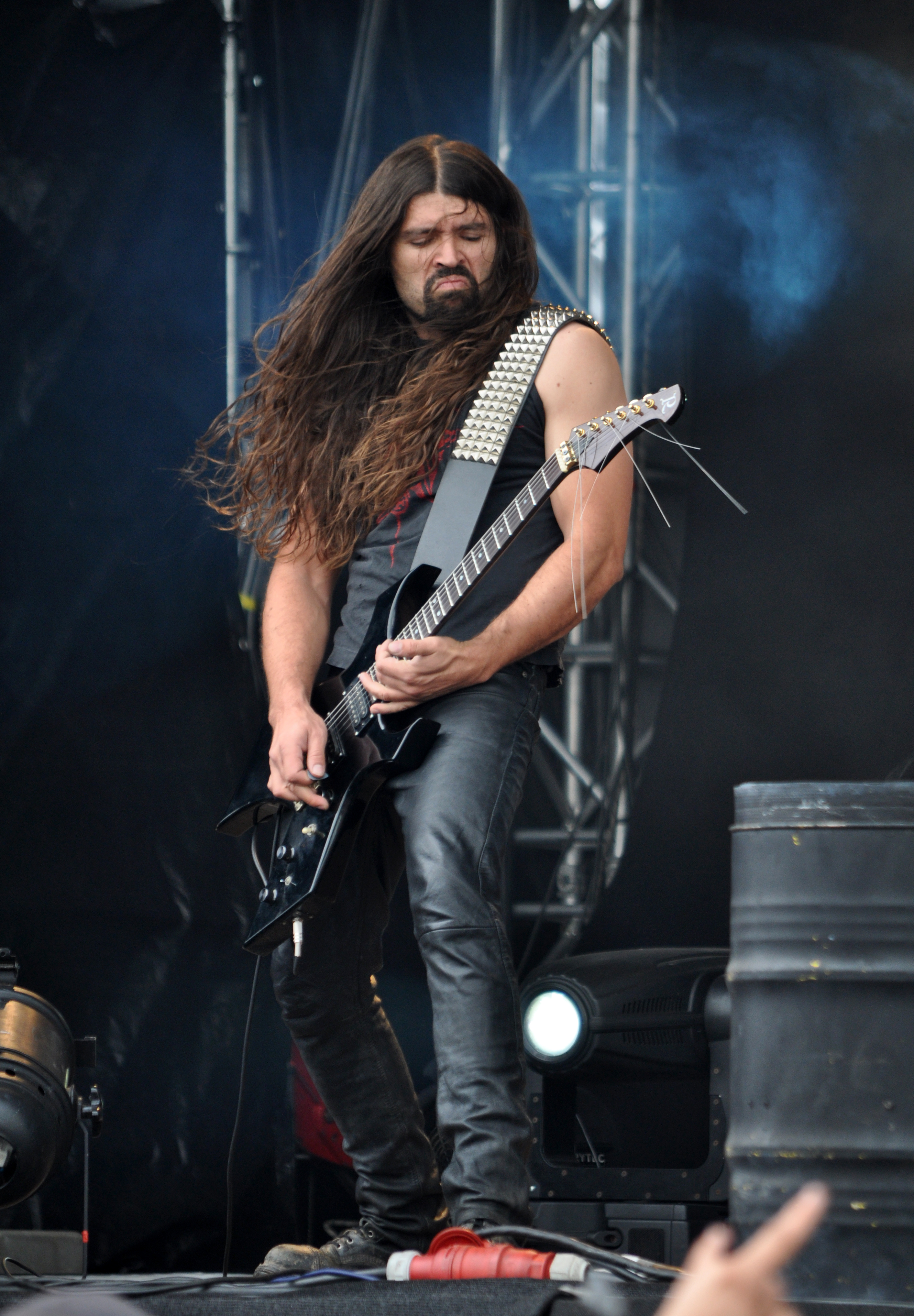 Gospel of the Horns at Party.San Open Air 2012